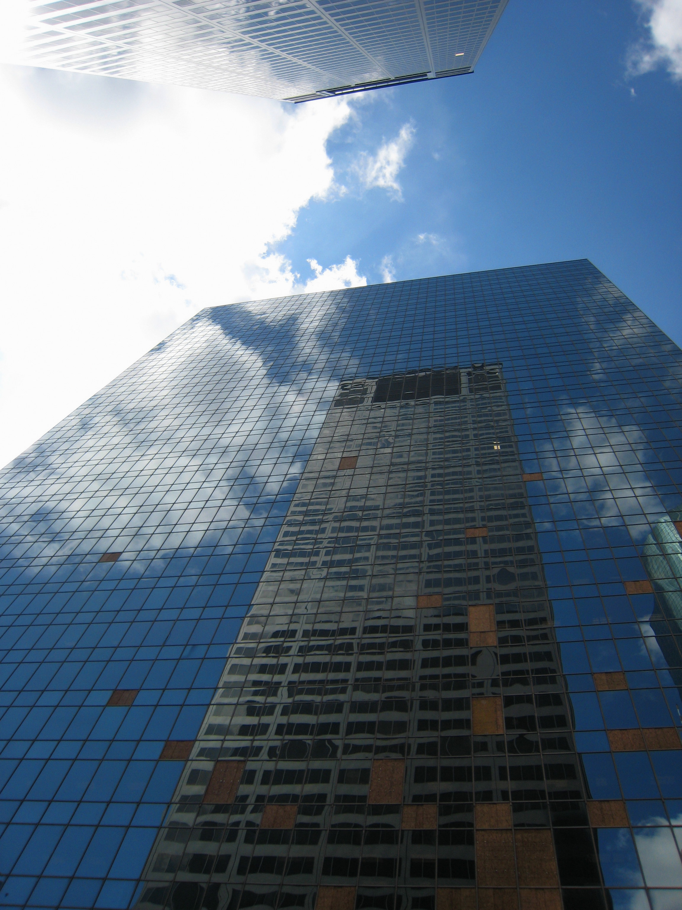 Imperfect Reflection